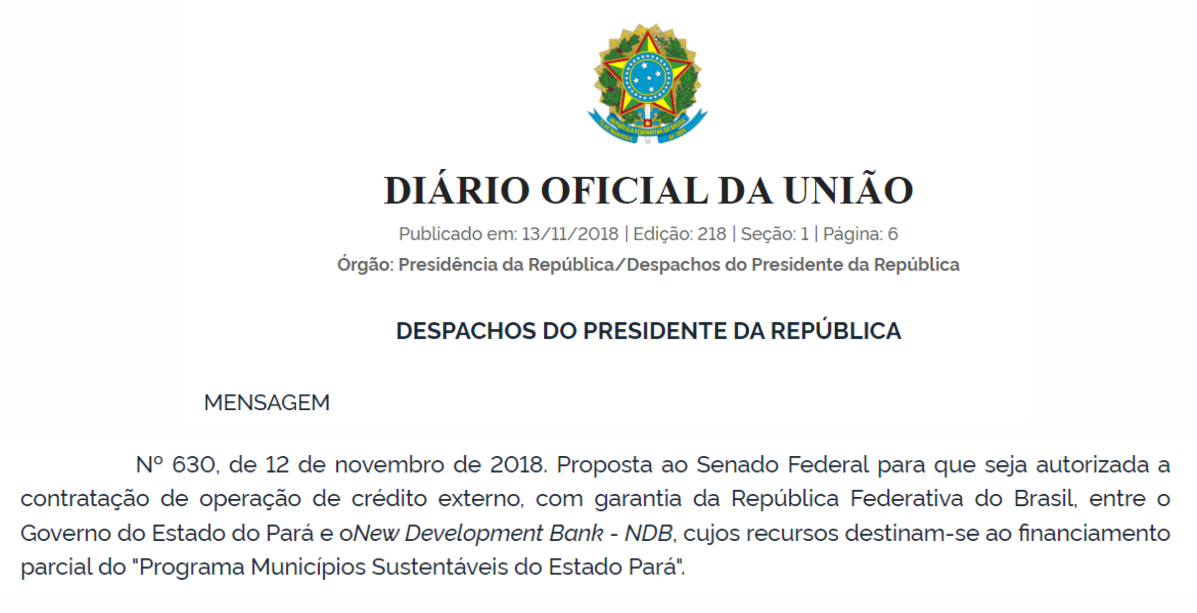 New Development Bank